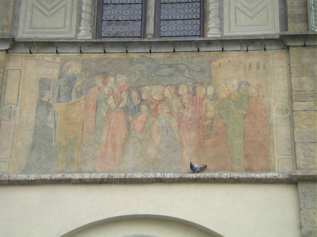 Fresco on facade of Loggia del Bigallo in Florence, Italy